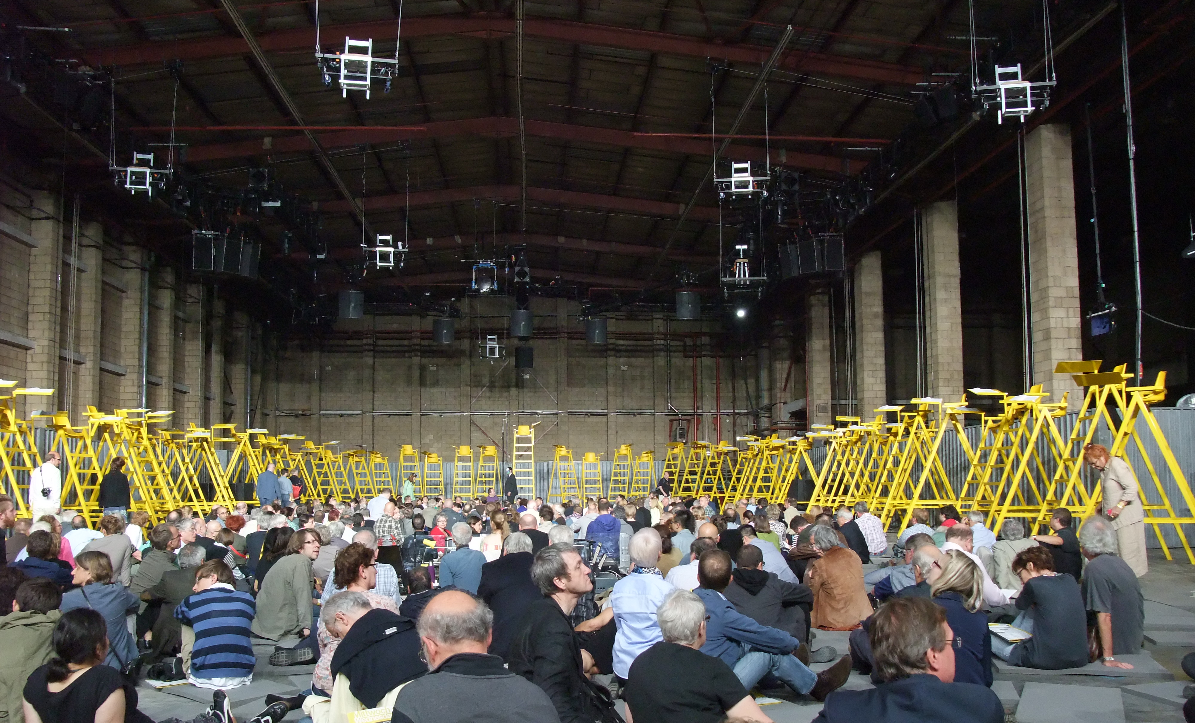 Setting of the first scene, Welt-Parlament (World Parliament) before its performance at the staged world premiere on Wednesday, 22 August 2012, of Karlheinz Stockhausen's opera Mittwoch aus Licht (Wednesday from Light). Production by Birmingham Opera, Graham Vick (director), Kathinka Pasveer (musical director). The opera's second and fourth scenes (Orchester-Finalisten and Michaelion) were also presented in this second of two performance spaces in the Argyle Works, Digbeth, Birmingham, UK. Photograph by Jerome Kohl.